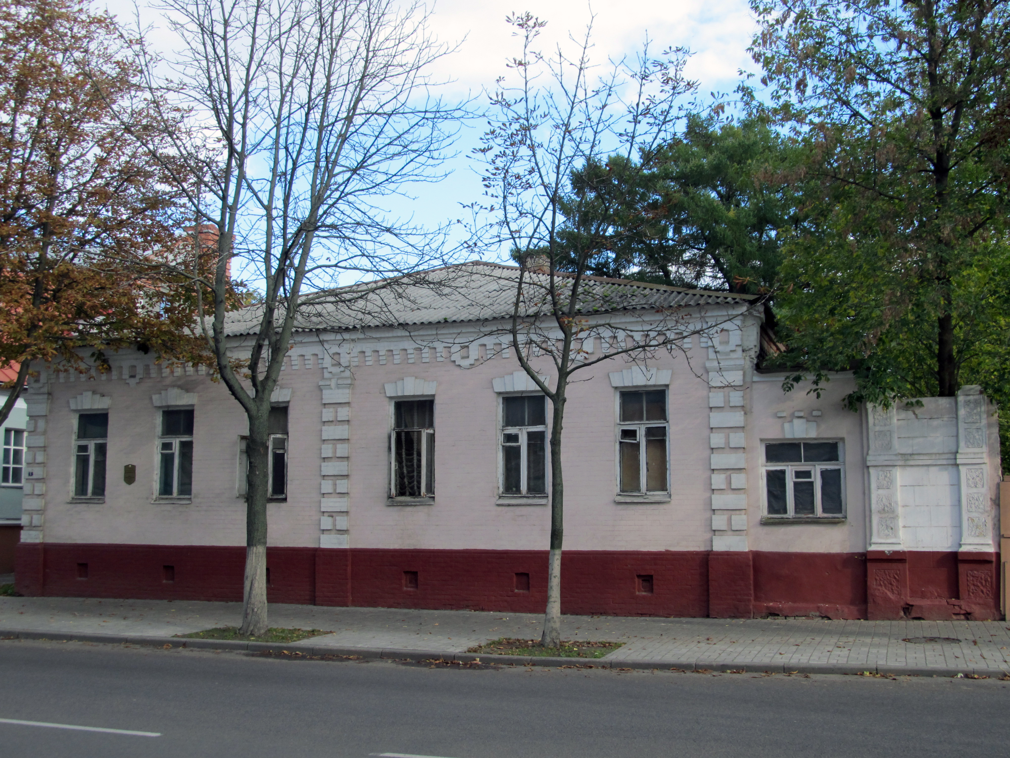 Беларуская (тарашкевіца): Будынак. г. Гомель This is a photo of Belarusian heritage monument. Reference number: 313Г000058 ( WLM)